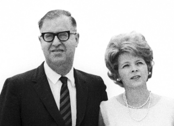 Photo shows: Abba and Suzi Eban, Shalom Meir and Journalist Lore Gross.